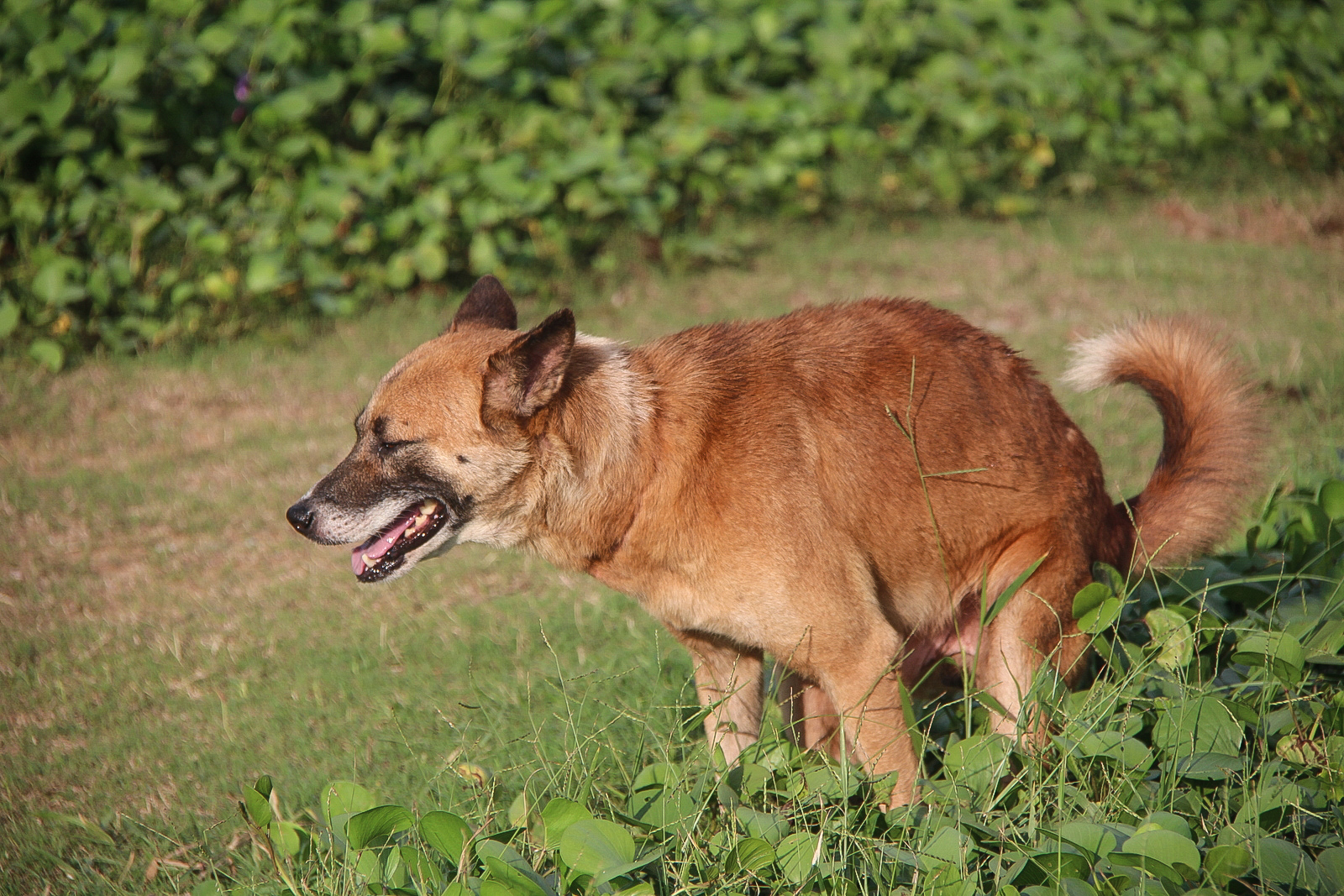 Defecate brown dog Sri Lanka